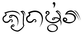 Lanna script – Chiang Muan is a district (Amphoe) in the southern part of Phayao Province, northern Thailand.